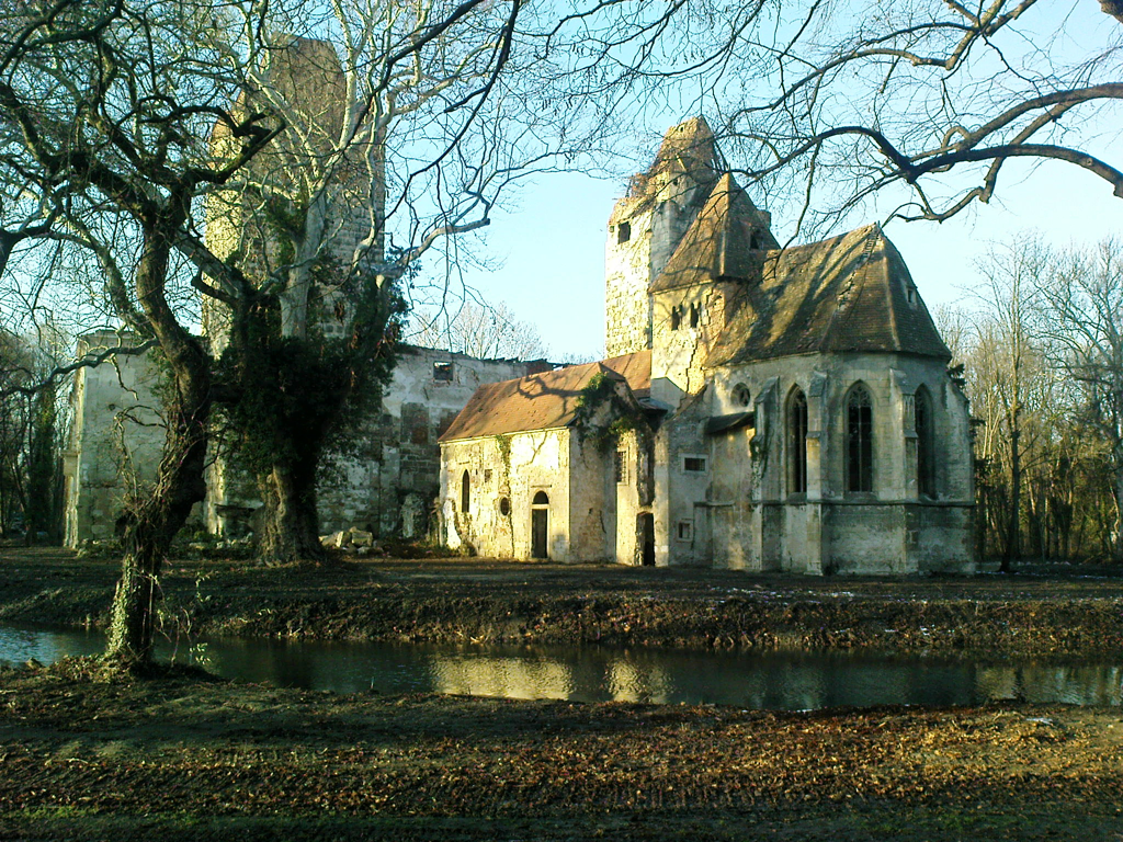 Pottendorf Castle in November 2008